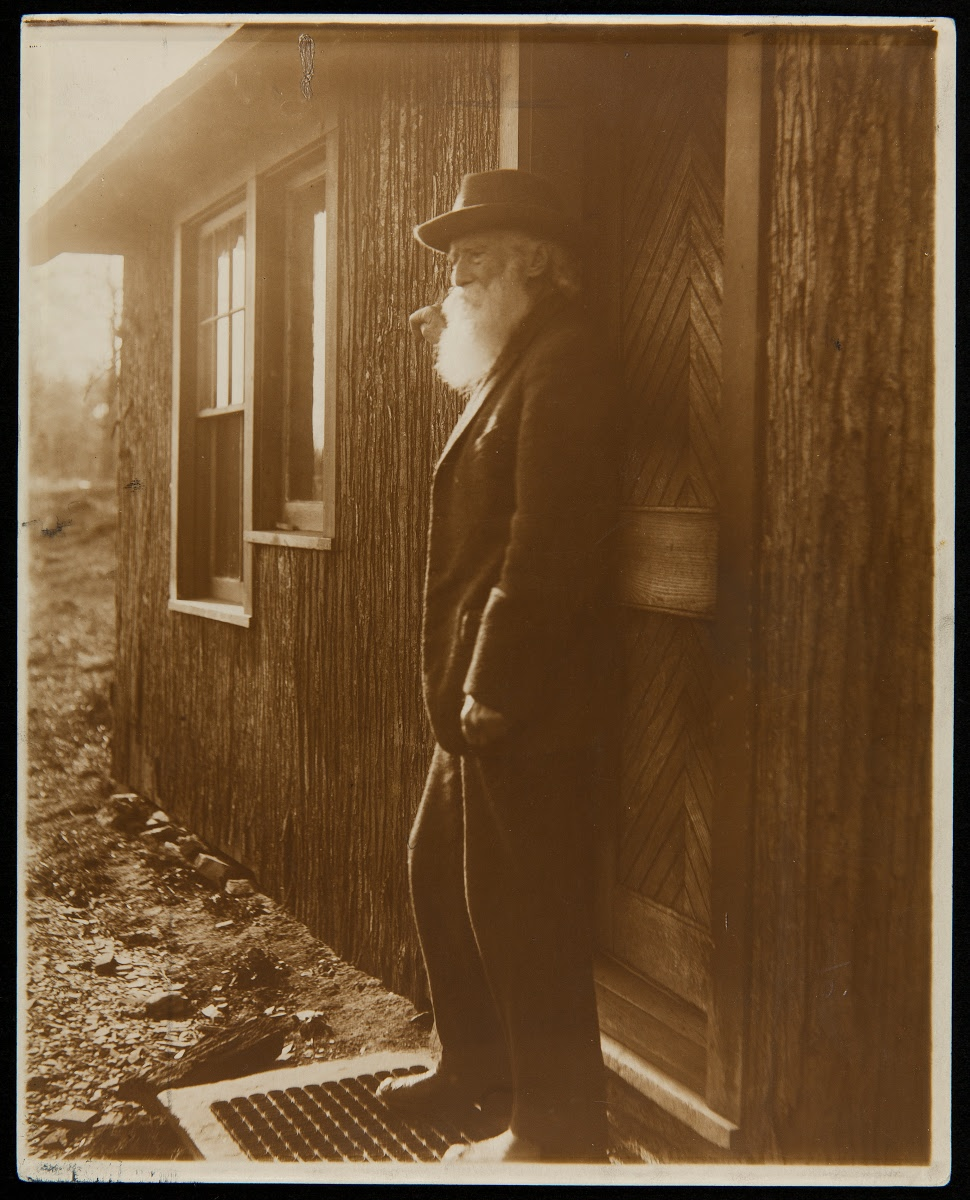 John Burroughs' Riverby Study, 1919, with Burroughs standing in front.